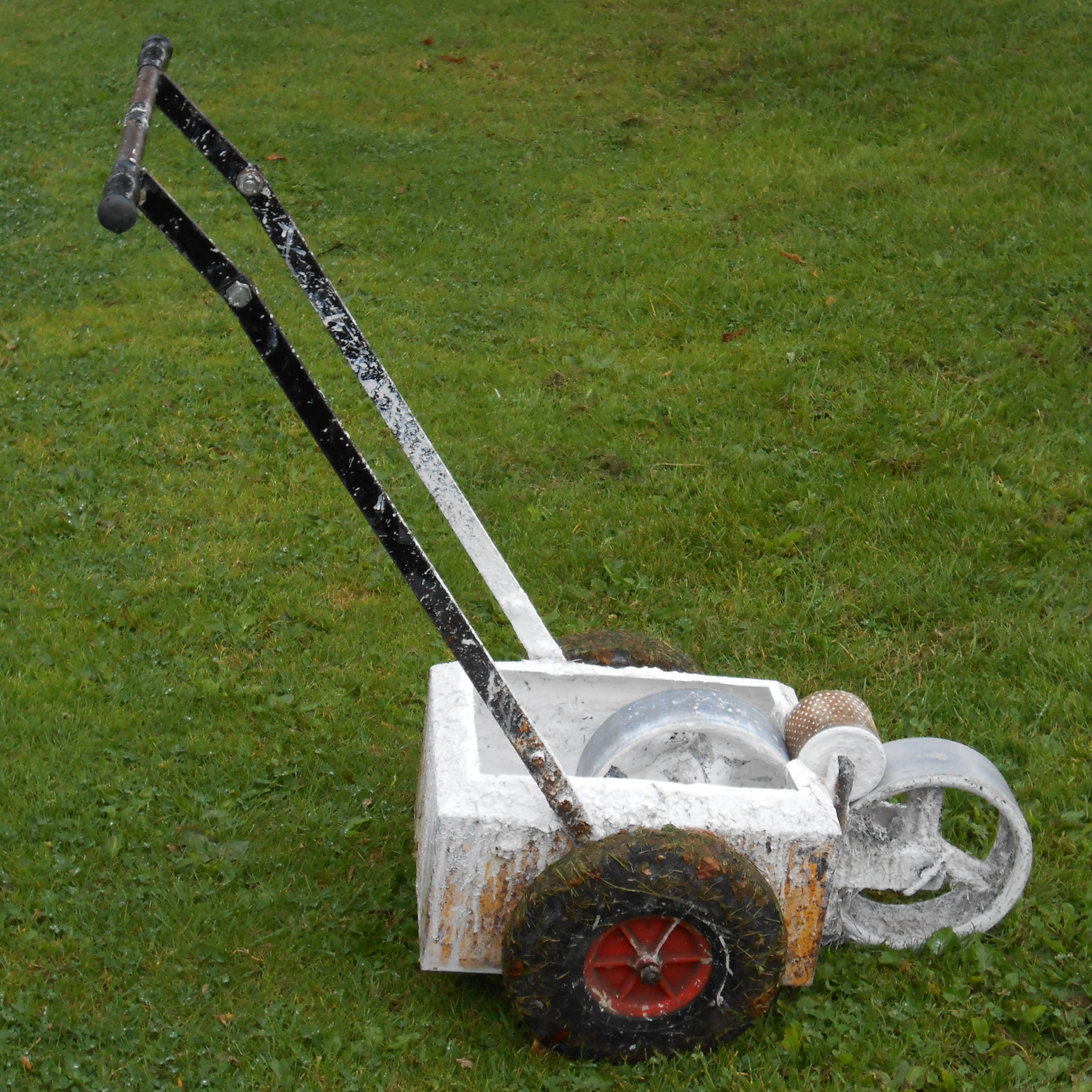 A transfer wheel line marking machine in Birkenhead Park, Merseyside, England.